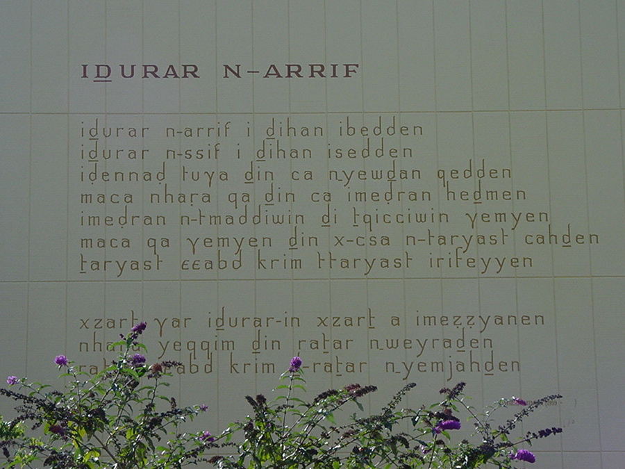 Wallpoem 'Idurar n-arrif' by Elwalid Mimoun, Wiekelhorst 1, Leiden